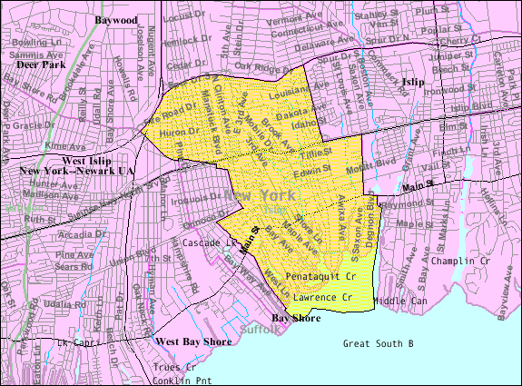 U.S. Census 2000 reference map for Bay Shore